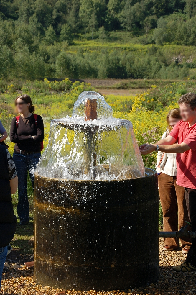 Grube Messel, near Darmstadt, Germany